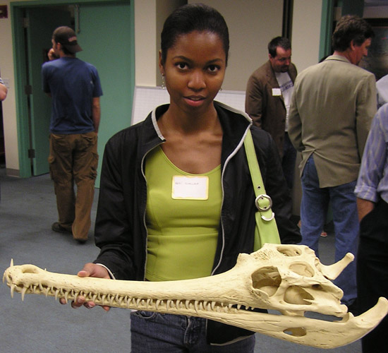 Skull of false gharial (Tomistoma schlegeli), photo by Vladimir Dinets